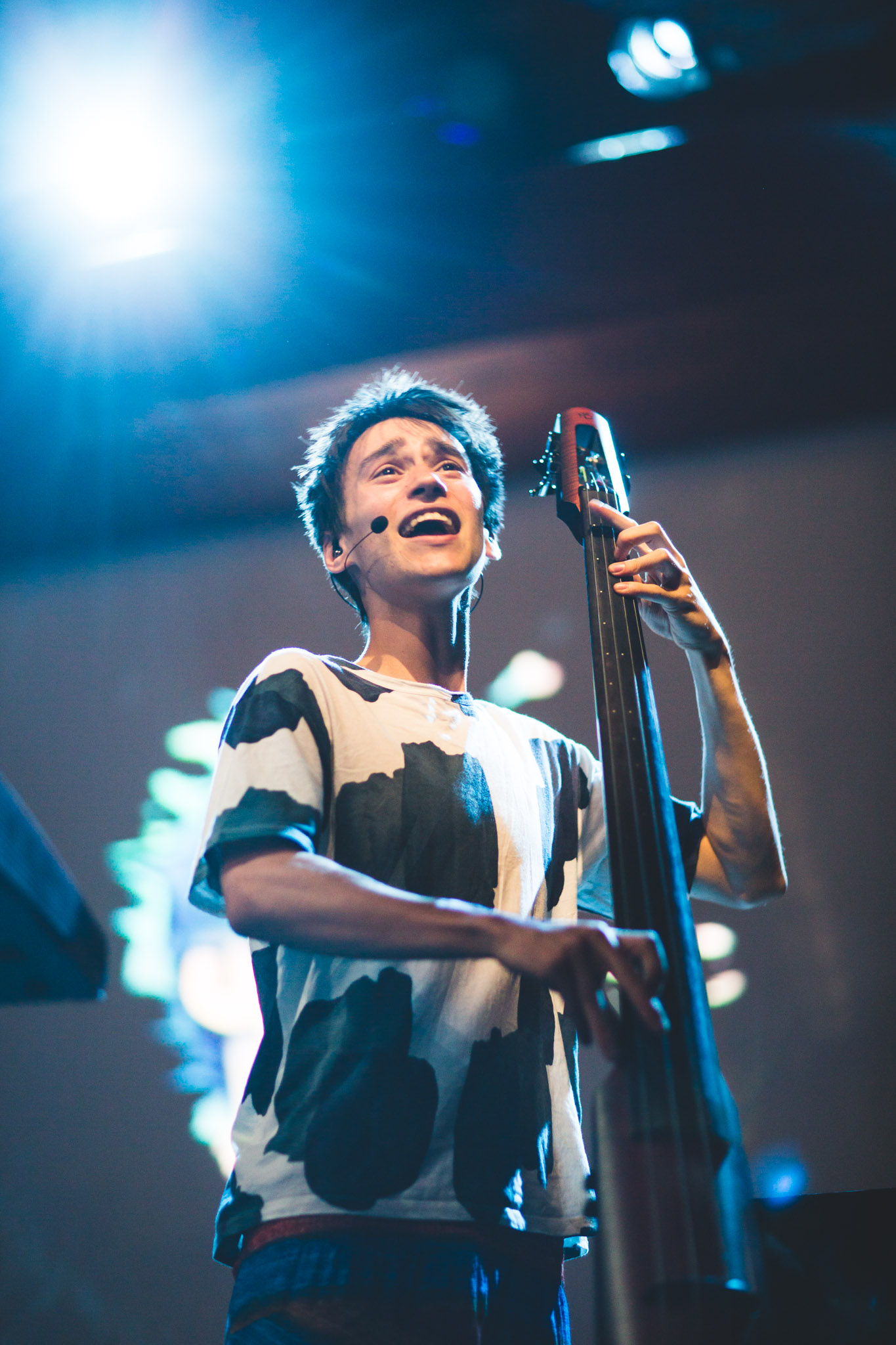 Jacob Collier performing at his Album Release at the YouTube Space LA in June of 2016.